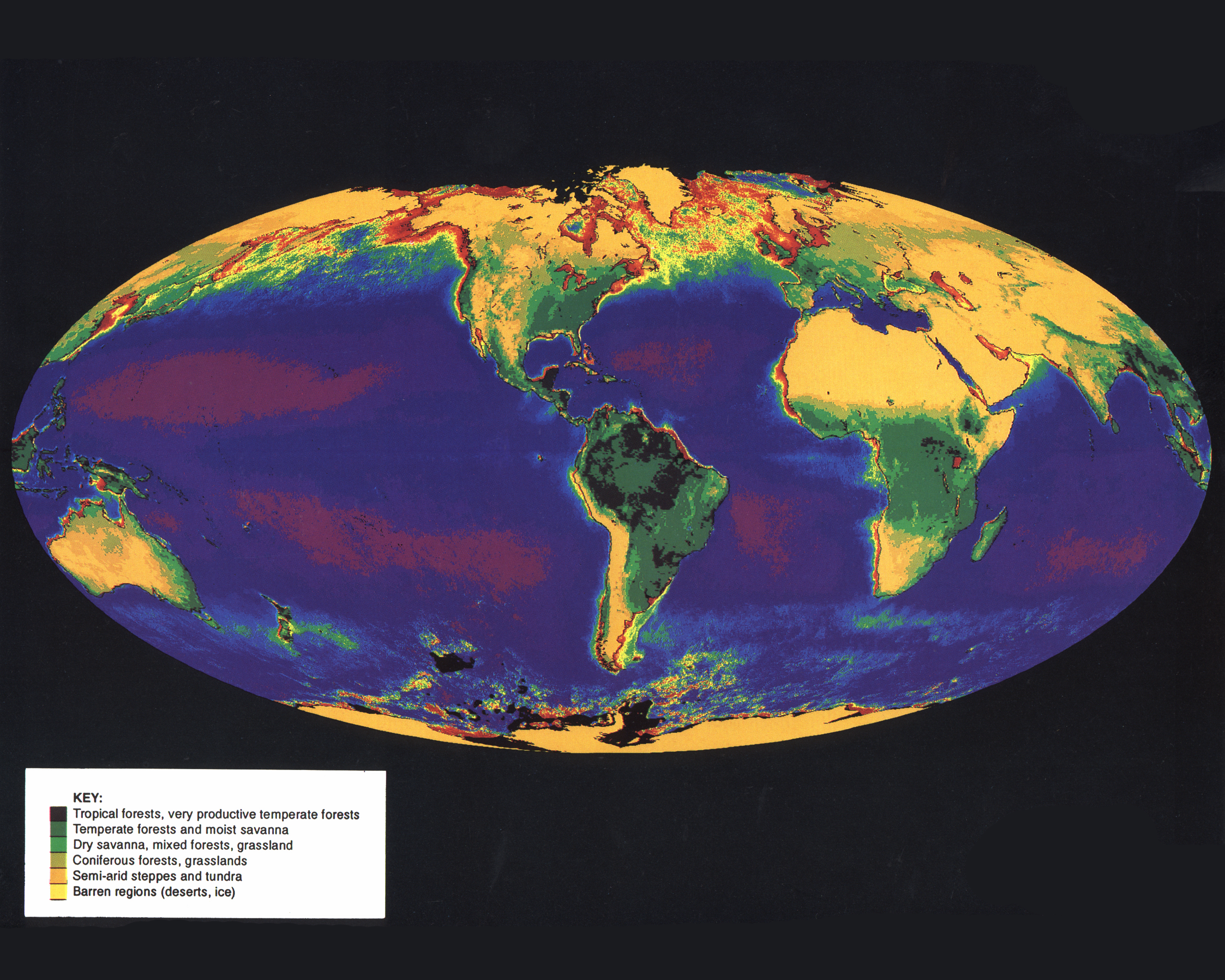 This image is comprised of data from the Advanced Very High Resolution Radiometer (AVHRR) aboard the National Oceanic and Atmospheric Administration's (NOAA) Polar Orbiting Environmental Satellite (POES) series to map global vegetation cover. The vegetation covering the continents was recorded by the AVHRR aboard NOAA-7, NOAA-8, and NOAA-11. Dense vegetation is represented by shades of purple and green; sparse vegetation by shades of brown. The vegetation "index," an indicator of vegetation cover, is calculated by comparing reflected infrared light to reflected visible light for a specific area of land. NOAA's two operational polar orbiting satellites scan the entire earth once every six hours from altitudes of about 850km (529 miles). The data collected by the AVHRR sensor are held in the archives of the United States Geological Survey's EROS Data Center. The objective of the AVHRR instrument was to provide radiance data for investigation of clouds, land-water boundaries, snow and ice extent, ice or snow melt inception, day and night cloud distribution, temperatures of radiating surfaces, and sea surface temperature.